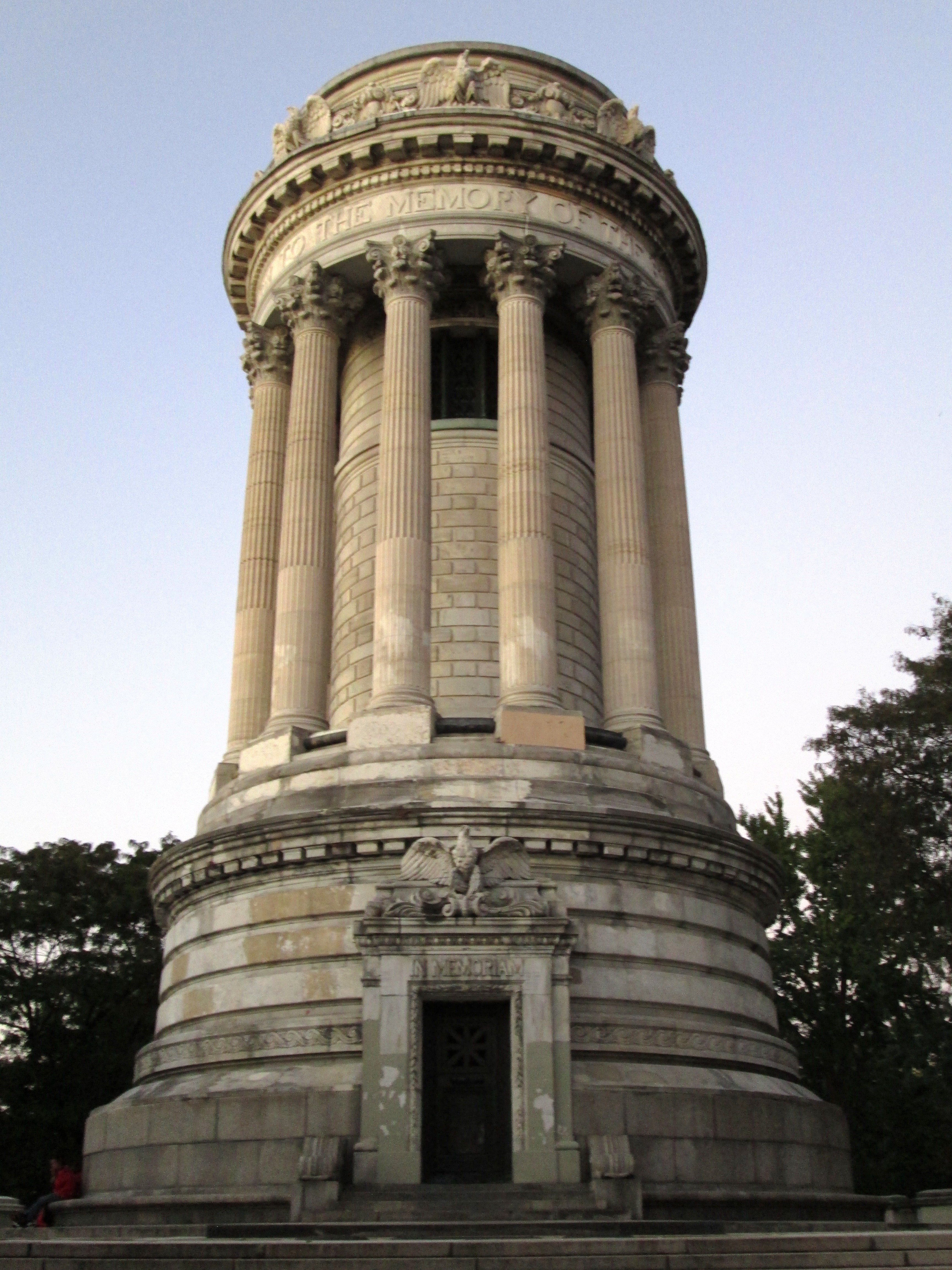 The Soldier's and Sailors' Monument in Riverside Park on Riverside Drive at West 89th Street in the Upper West Side honors the dead of the Civil War, and was designed by Stoughton & Stoughton with Paul E. M. DuBoy. It was built from 1897-1902 and is an enlarged version of the Choragic Monument of Lysicrates in Athens. (Sources: AIA Guide to NYC (Fifth Edition) and Guide to NYC Landmarks (Fourth edition))